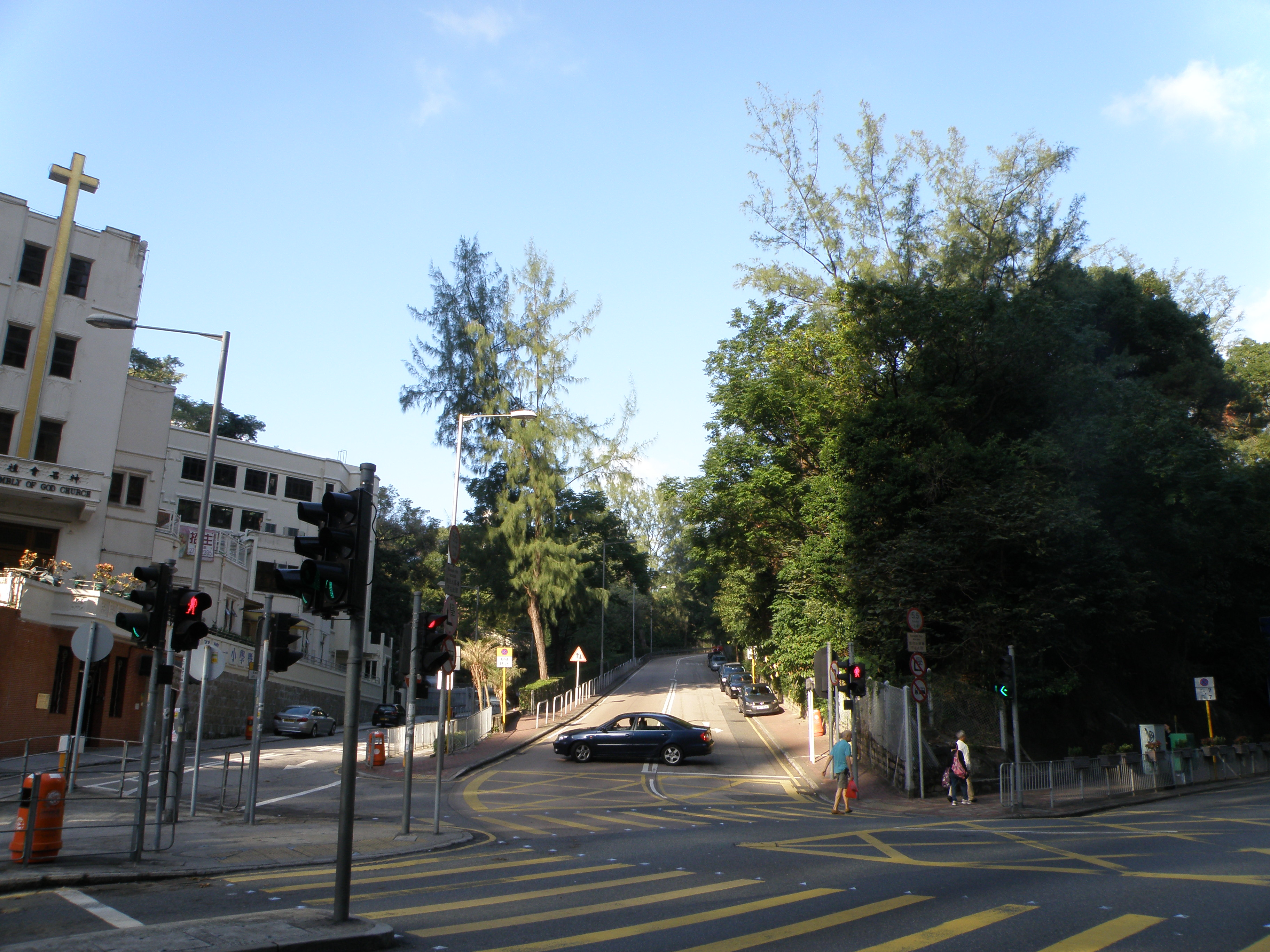 Kadoorie Avenue in Mong Kok, Hong Kong.